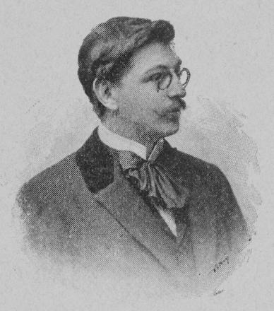 Portrait of Jaroslav Kvapil (1868 - 1950), Czech poet.